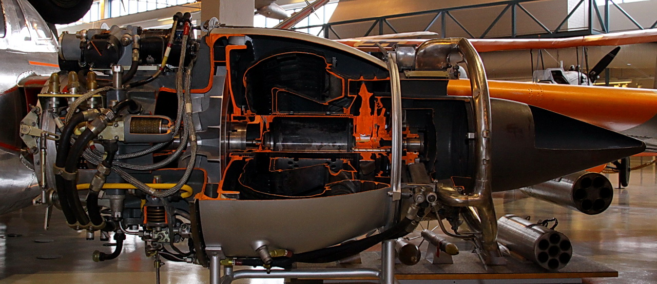 Turbomeca Marboré II F 3 in Aviation Museum of Central Finland.